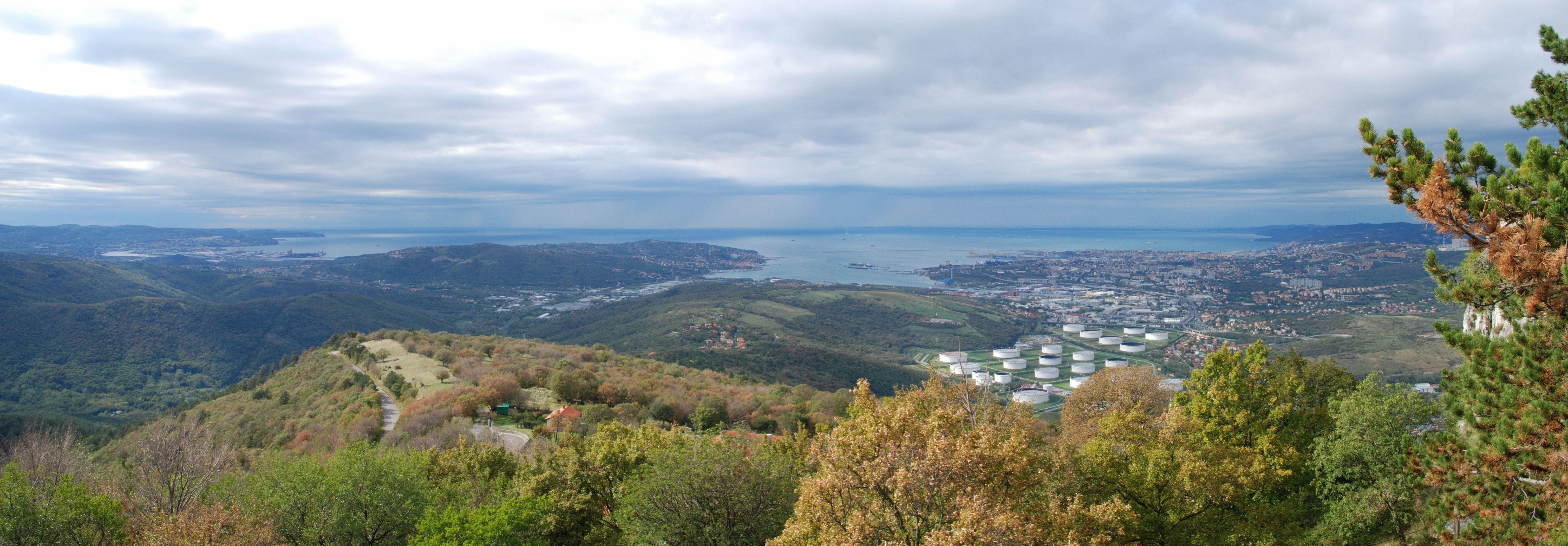 View from the parking lat at Socerb Castle towards the Bay of Trieste. One may see the city of Koper and the Slovene Riviera to the left, Muggia Peninsula and the village of Muggia in the centre, and the city of Trieste to the right.